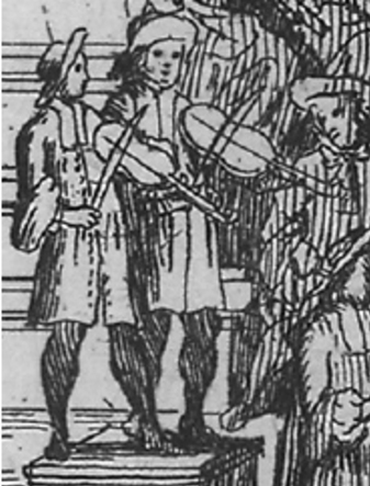 Arcangelo Corelli and Matteo Fornari playing violin. Detail from a drawing by Christofor Schor showing the musical ensemble of the 1687 performance at the Piazza di Spagna.